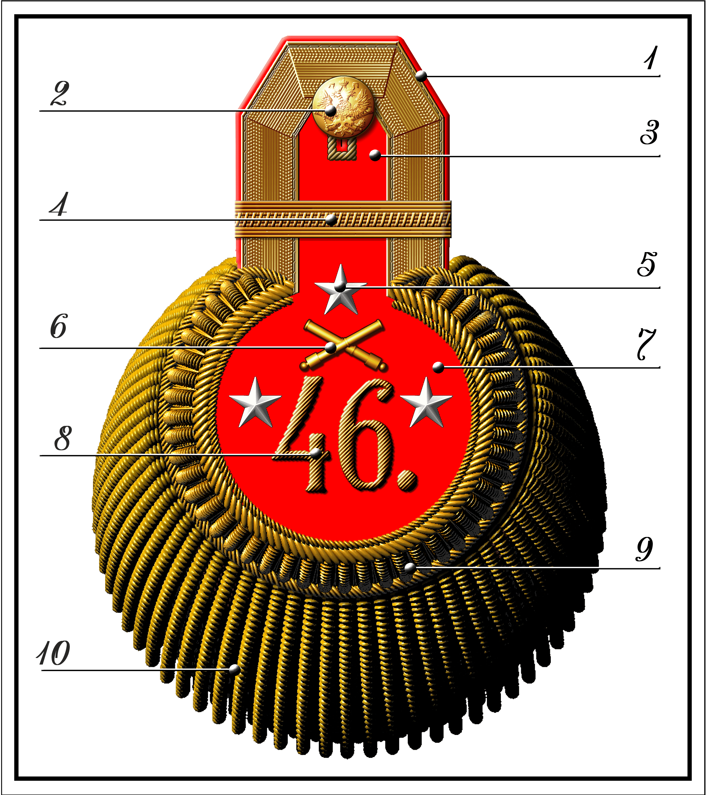 Russian Empire until 1917, rank insignia of the armwed forces. Epaulette, components and structure (as exampel a lieutenant colonel of the 46th Artillery brigade). 1. Lining 2. Button 3. Koren (spine)? 4. Сounter-rank slide / attentes? 5. Pips? 6. Special rank insignia? 7. Epaulett´s field 8. Ciphertext? 9. Skirt? 10. Fringe